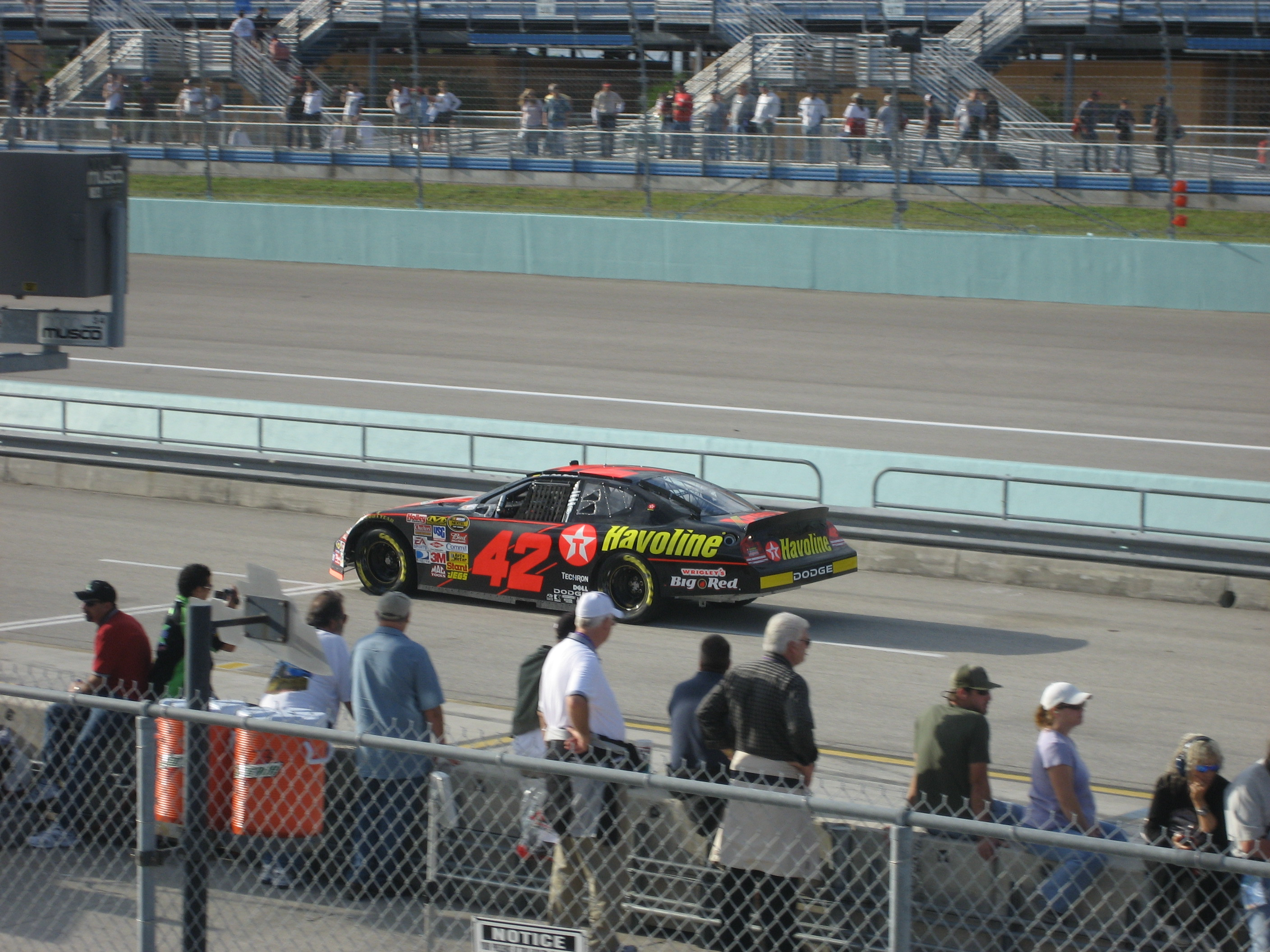 Juan Pablo Montoya practicing for the 2007 Ford 400 at the Homestead-Miami Speedway. Cr. Chris Green